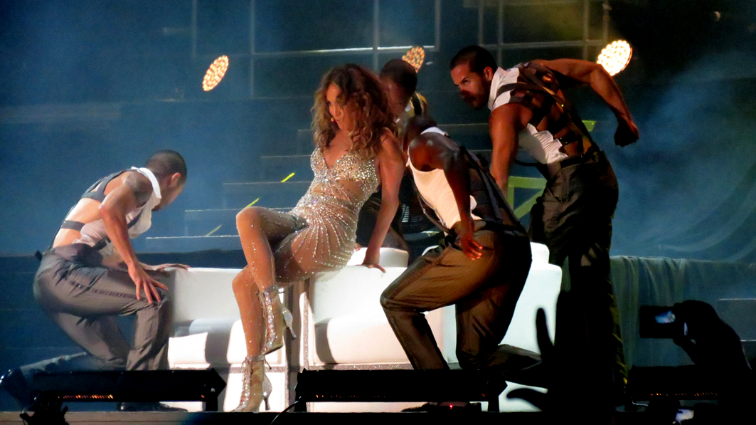 Jennifer Lopez live at the Pop Music Festival in São Paulo, Brazil.